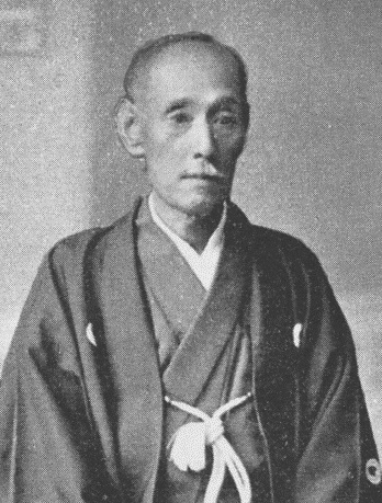 Viscount Yasuaki Katō, Member of the House of Peers